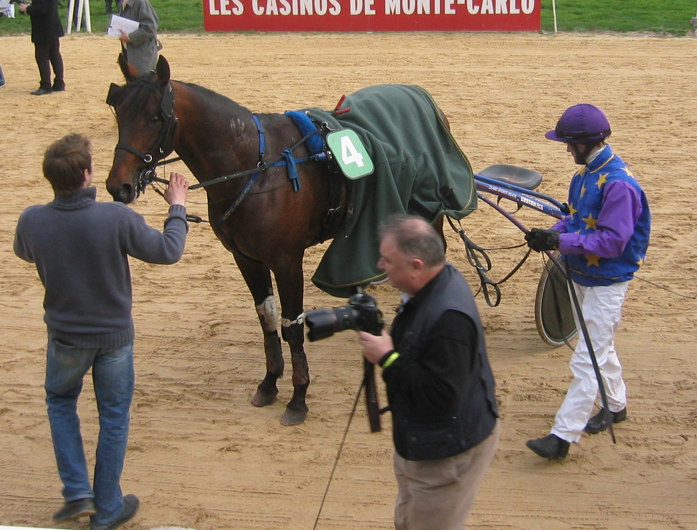 Nijinski Blue with his lad and Pierre-Yves Verva after the Critérium de vitesse de Cagnes-sur-Mer 2008